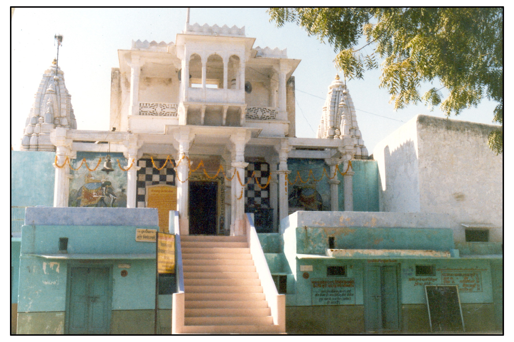 Shri Bhandavpur Tirth Old Photo